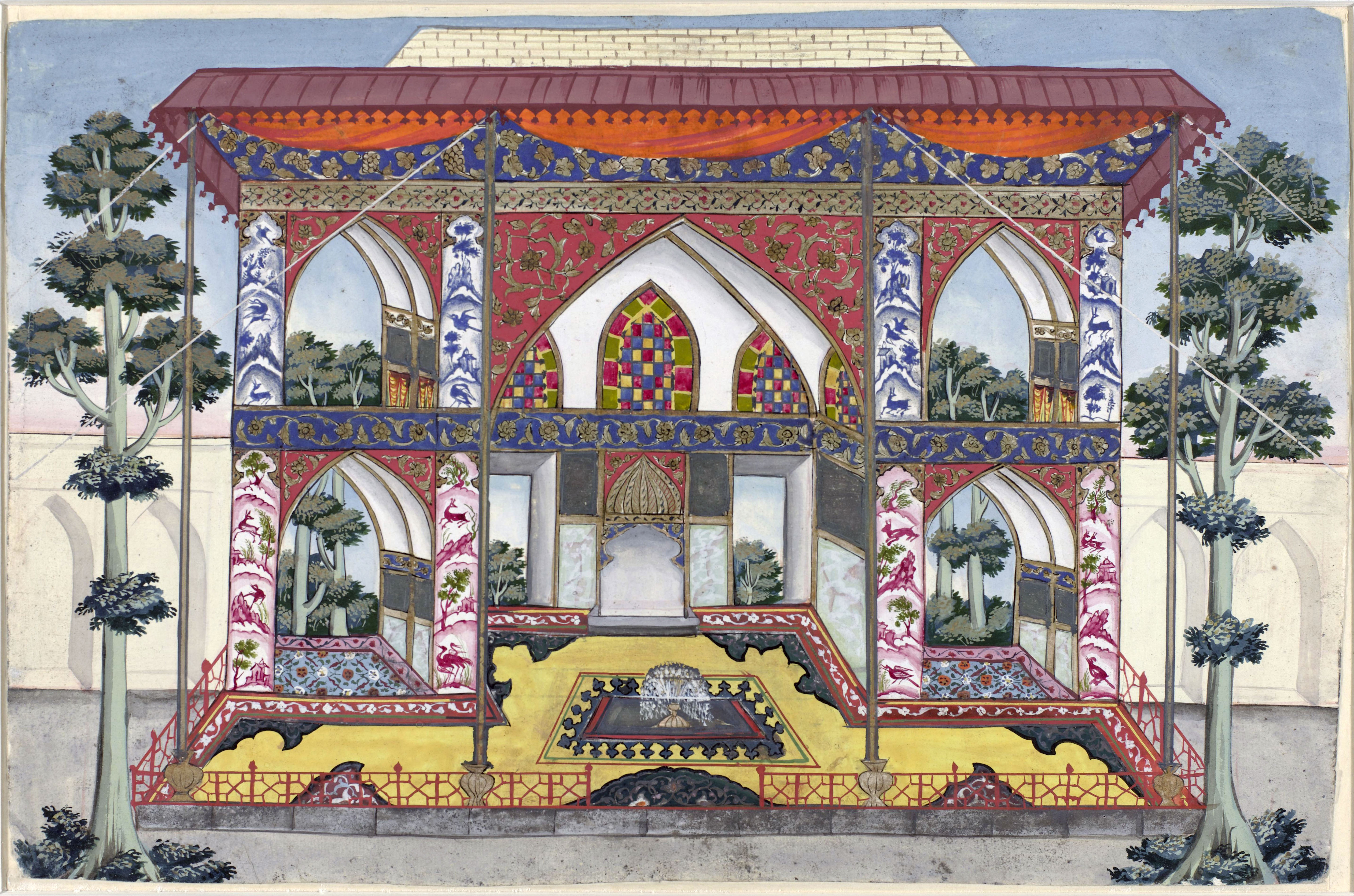 This is an image from about 1625 - 1649, of Shah Safi's privat court in which he considerd public matters. This monument doesn't exist anymore, it was destroyed many years ago. The painting is 220 mm × 333 mm (8.7 in × 13.1 in), made in gouache on paper.